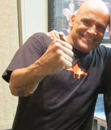 Former UFC Champion Bas Rutten with Bob Bekian in 2011